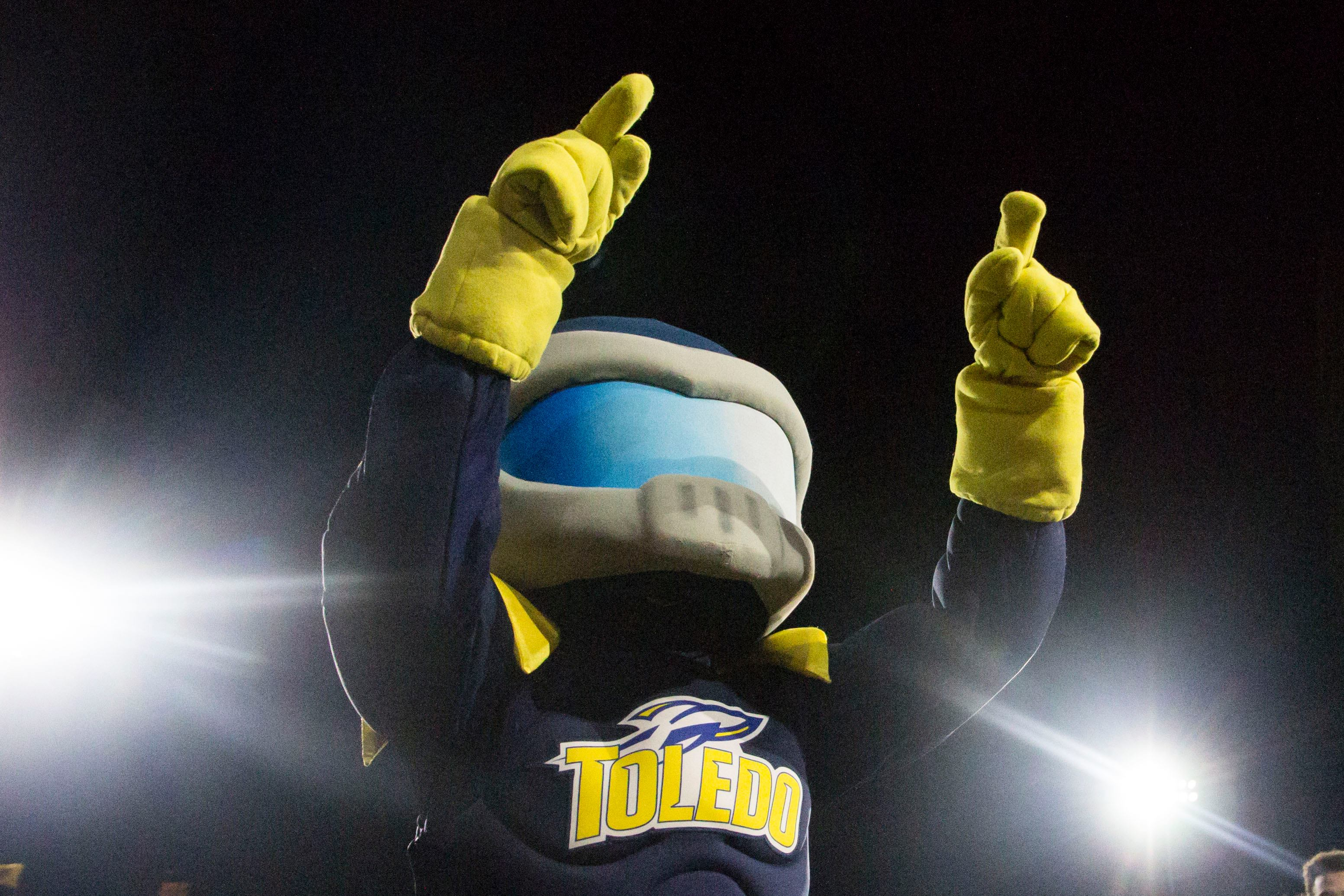 The current Rocky the Rocket at Scheumann Stadium against the Ball State Cardinals. (photo by Grace Hollars).